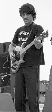 Rick Danko, Woodstock Reunion, 9/7/79. Parr Meadows, Ridge, NY.